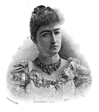 Carmen Romero Rubio (ca. 1893) wife of the former president of Mexico Porfirio Díaz.